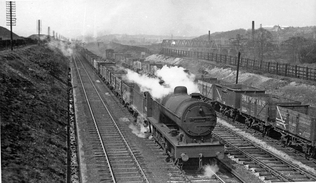 Two eastbound empties trains on the Calder Valley main line west of Mirfield. View westward, towards Heaton Lodge Junction, Sowerby Bridge/Huddersfield, Todmorden and Manchester - see also SE1919 : Eastbound empties west of Mirfield. The locomotive visible is No. 49561, one of the 'Austin Seven' LMS 7F 0-8-0s which dominated these workings before the advent of the ex-War Department 2-8-0s.